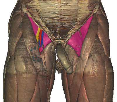 Anterior dissection of the femoral triangle showing the pectineus and iliopsoas muscles forming the floor of the triangle.